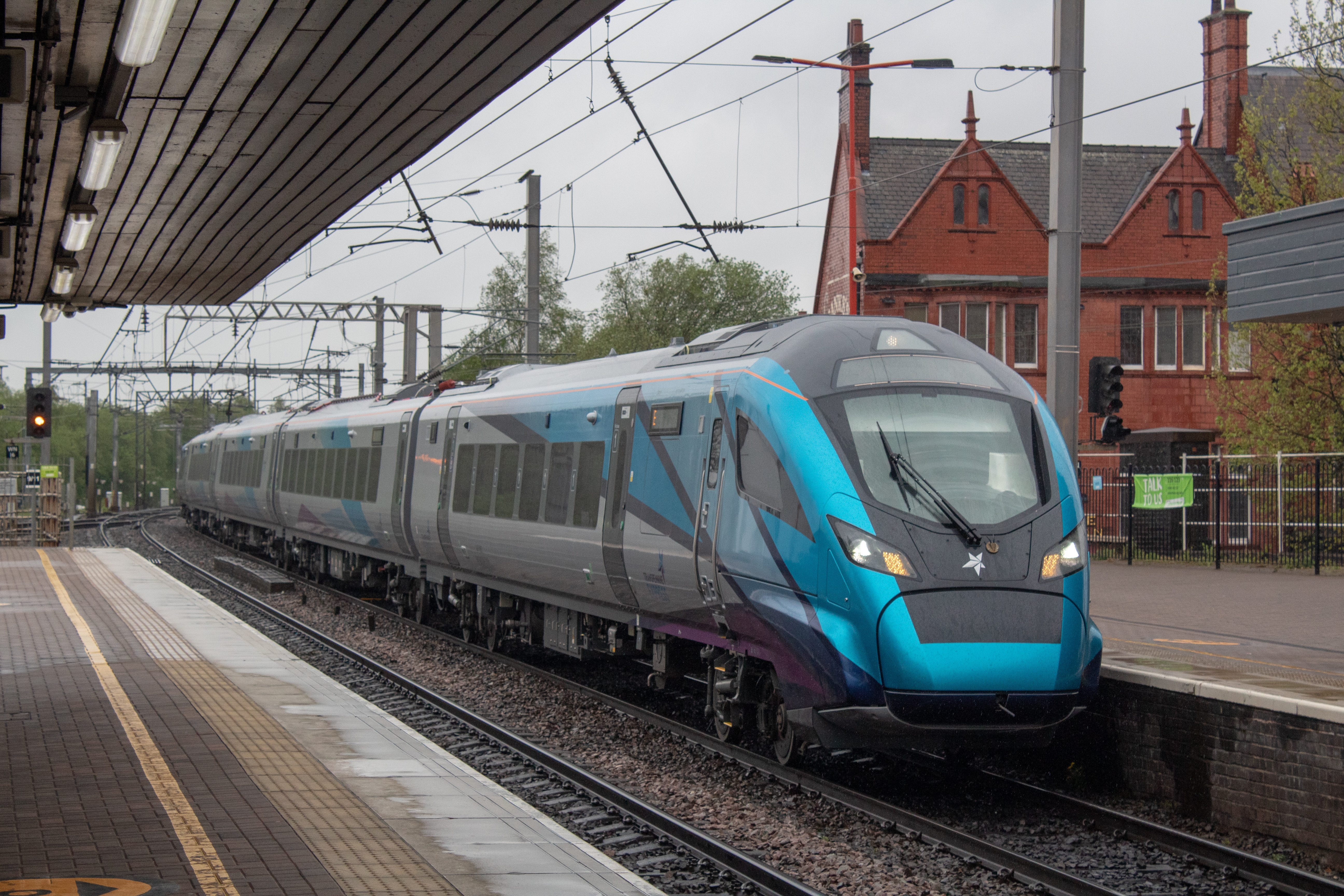 Transpennine Express CAF Class 397003 passing through Wigan North Western 26th April 2019 whilst on test